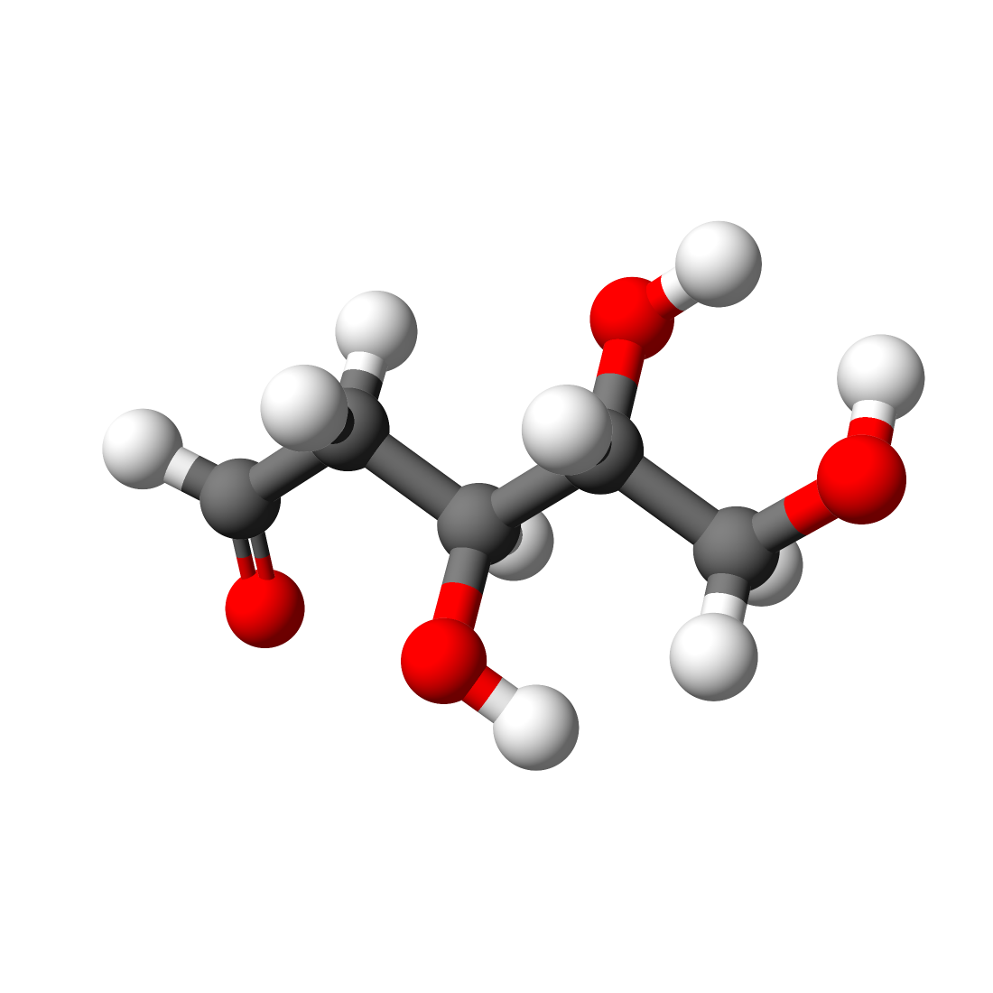 A model of D-deoxyribose in chain form